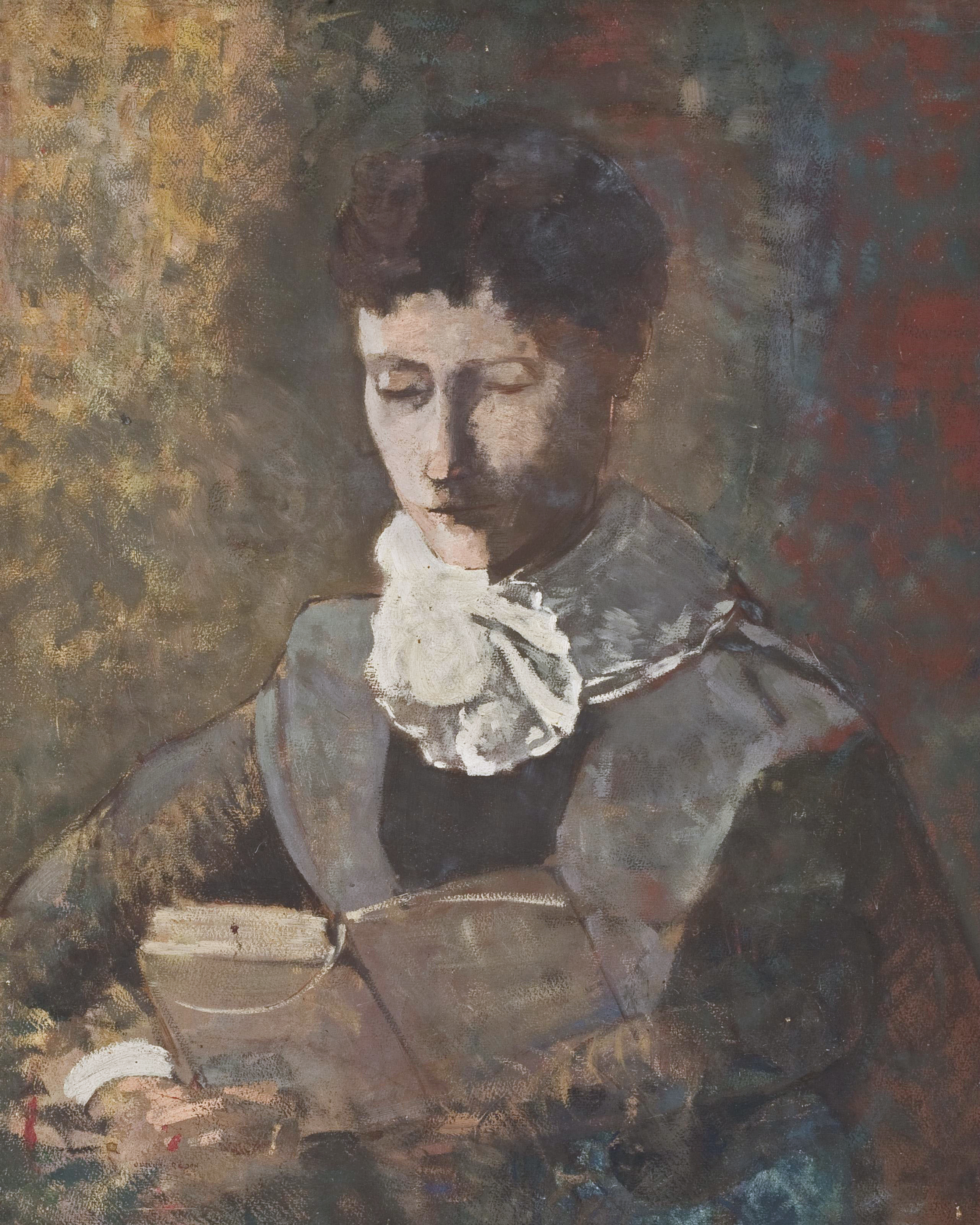 Camille Redon reading oil on paper, mounted on canvas 53.2 x 43.3 cm signed l.l: Odilon Redon